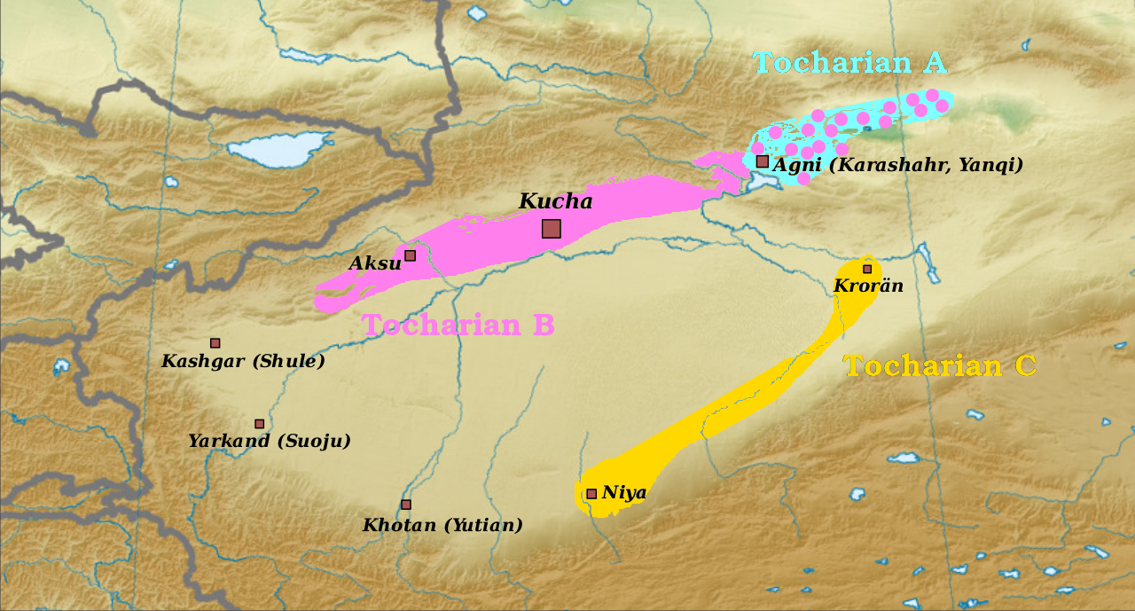 Tocharian languages - A, B, C in the Tarim Basin. Tarim oasis towns are given as listed in the Book of Han (c. 2nd century BC.) Areas of the squares are proportional to population.